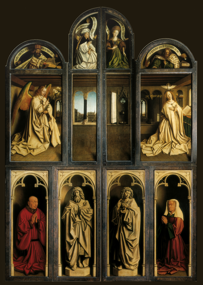 Mystic Lamb, 1432